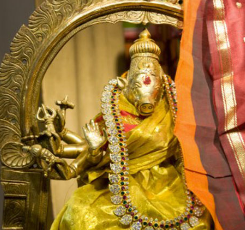 The photo depicts the Goddess Devi Varahi Ambika installed at the Parashakthi Temple in Pontiac, Michigan and the picture of the Goddess is shown.